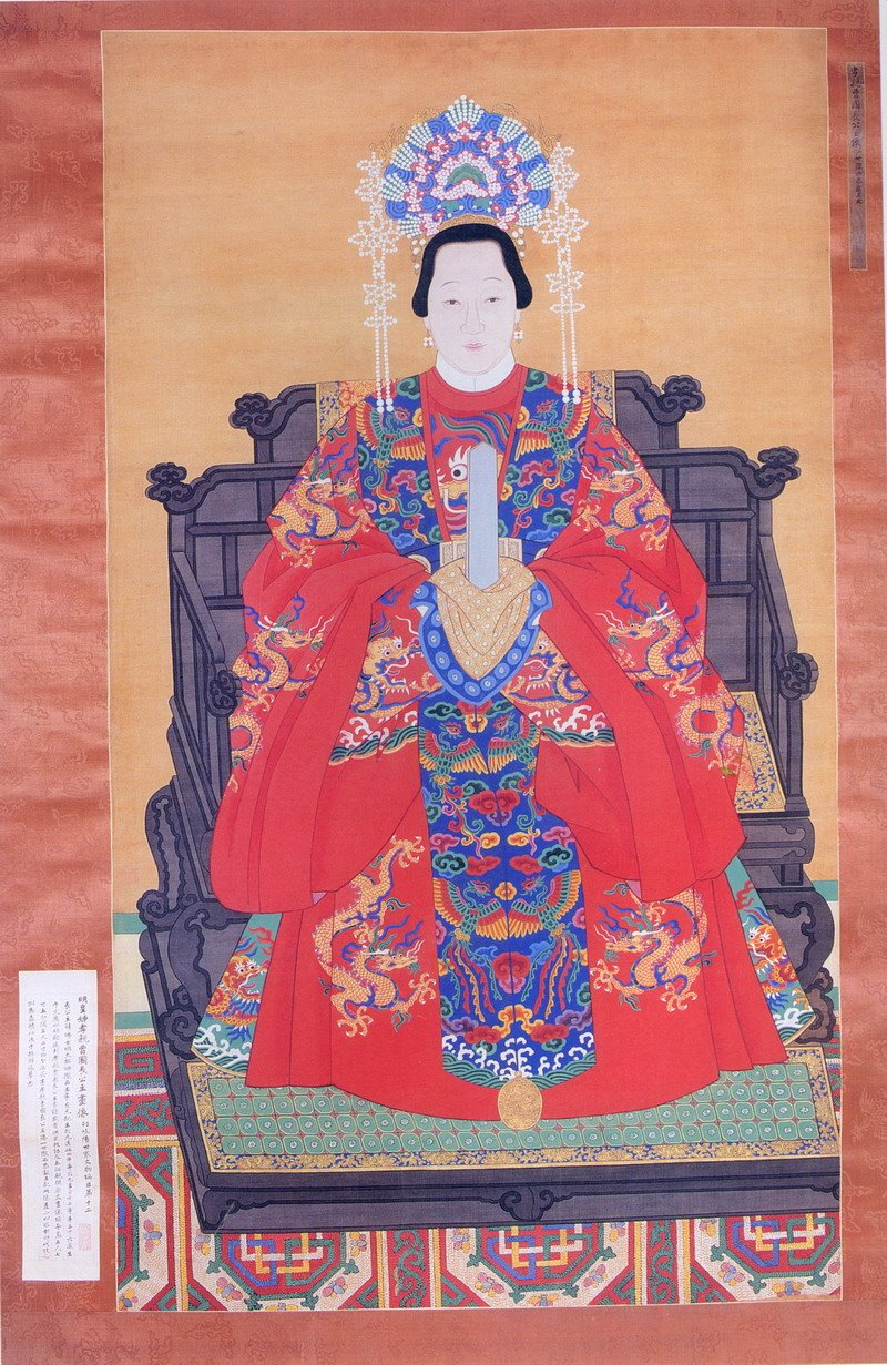 Portrait from China Ming Dynasty